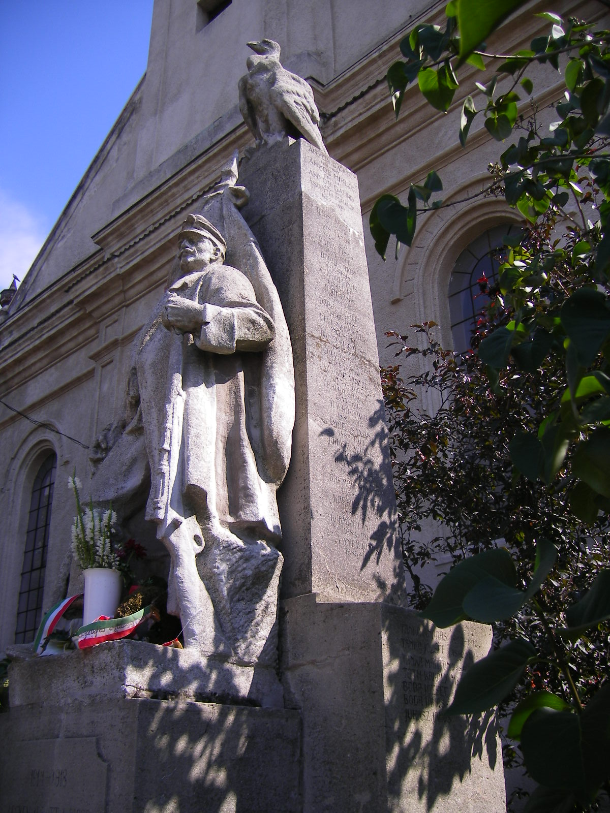 Kocs - war memorial between the reformated church